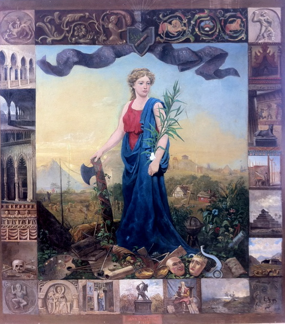 A painting "Concordia" by Olof Hermelin